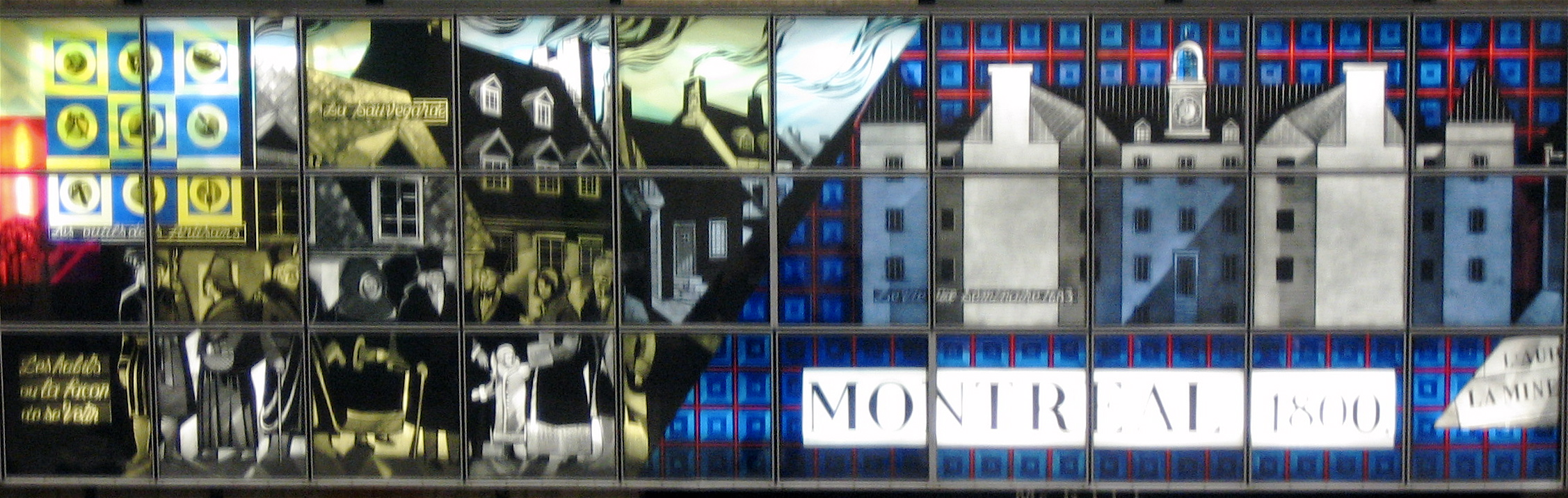 Stained glass, McGill metro station, Montreal. Second of five pieces from East to West.